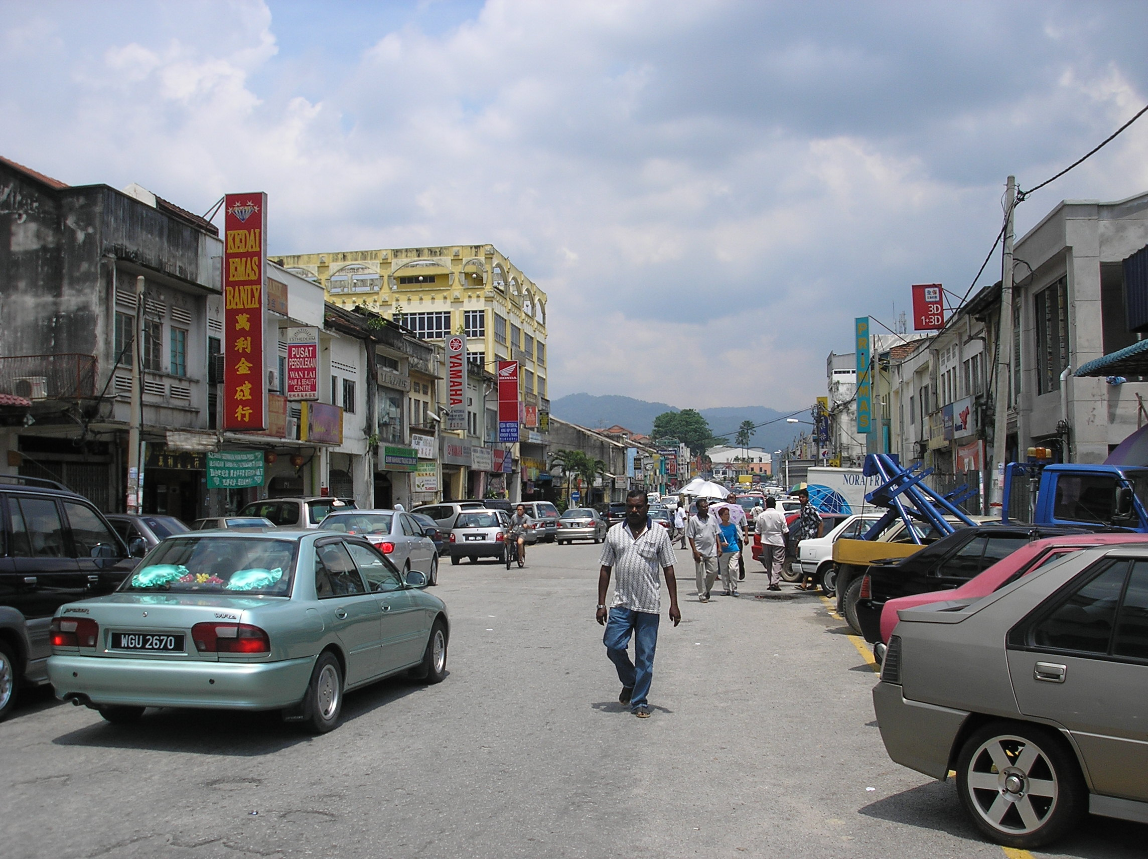 Southward view of Rawang (forgotten the name of this road, but I should have a picture of the road sign (Jalan Welman), Selangor, Malaysia.